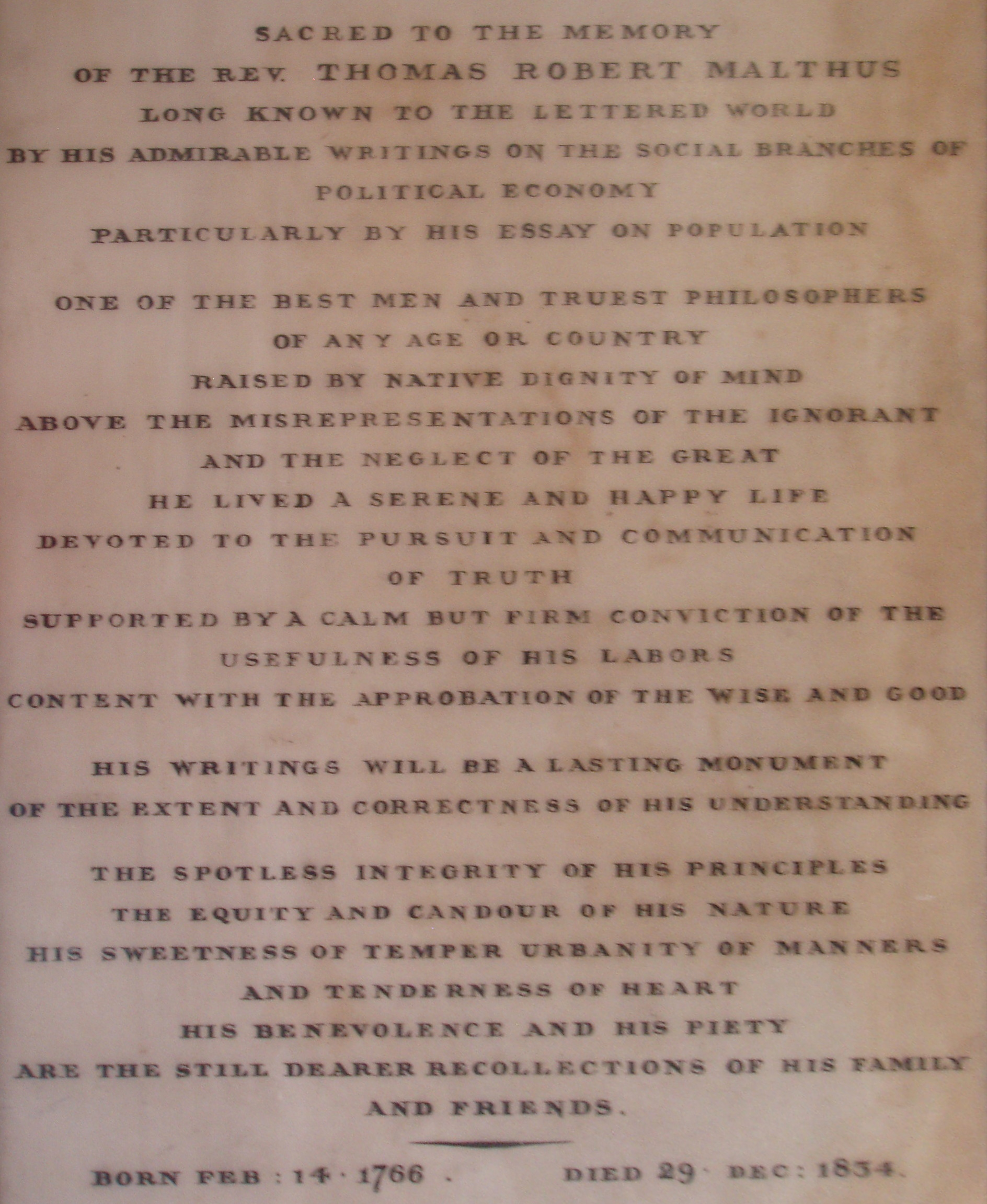 This is a photo of the epitaph of Thomas Malthus in the entrance to Bath Abbey. The perspective distortion has been removed using The Gimp. Photo taken 3 August 2008.